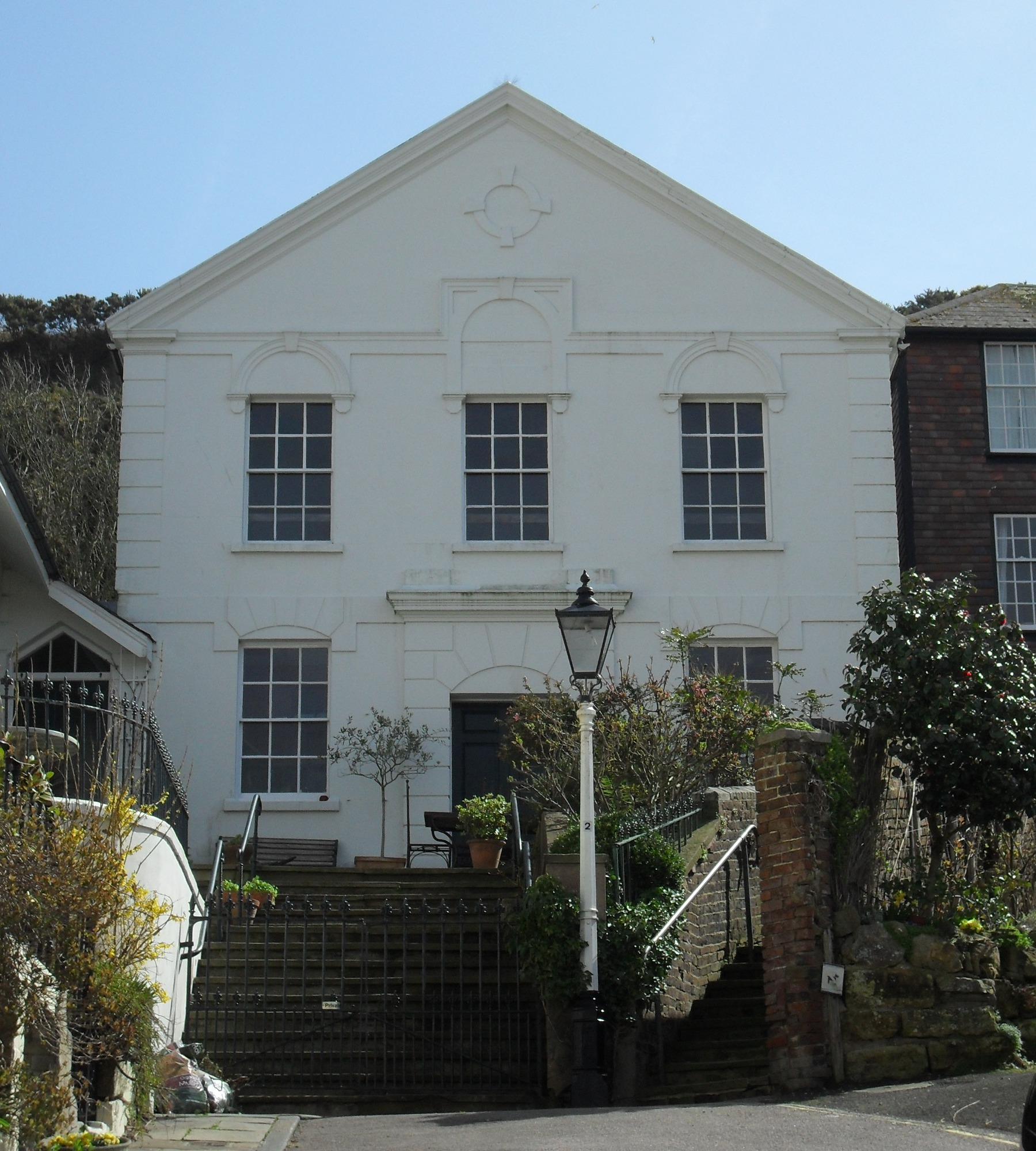 Former Ebenezer Particular Baptist Chapel, Ebenezer Road, Old Town, Hastings. Built in 1817 for the town's Strict and Particular Baptists; now a house. Listed at Grade II by English Heritage (IoE Code 293813)